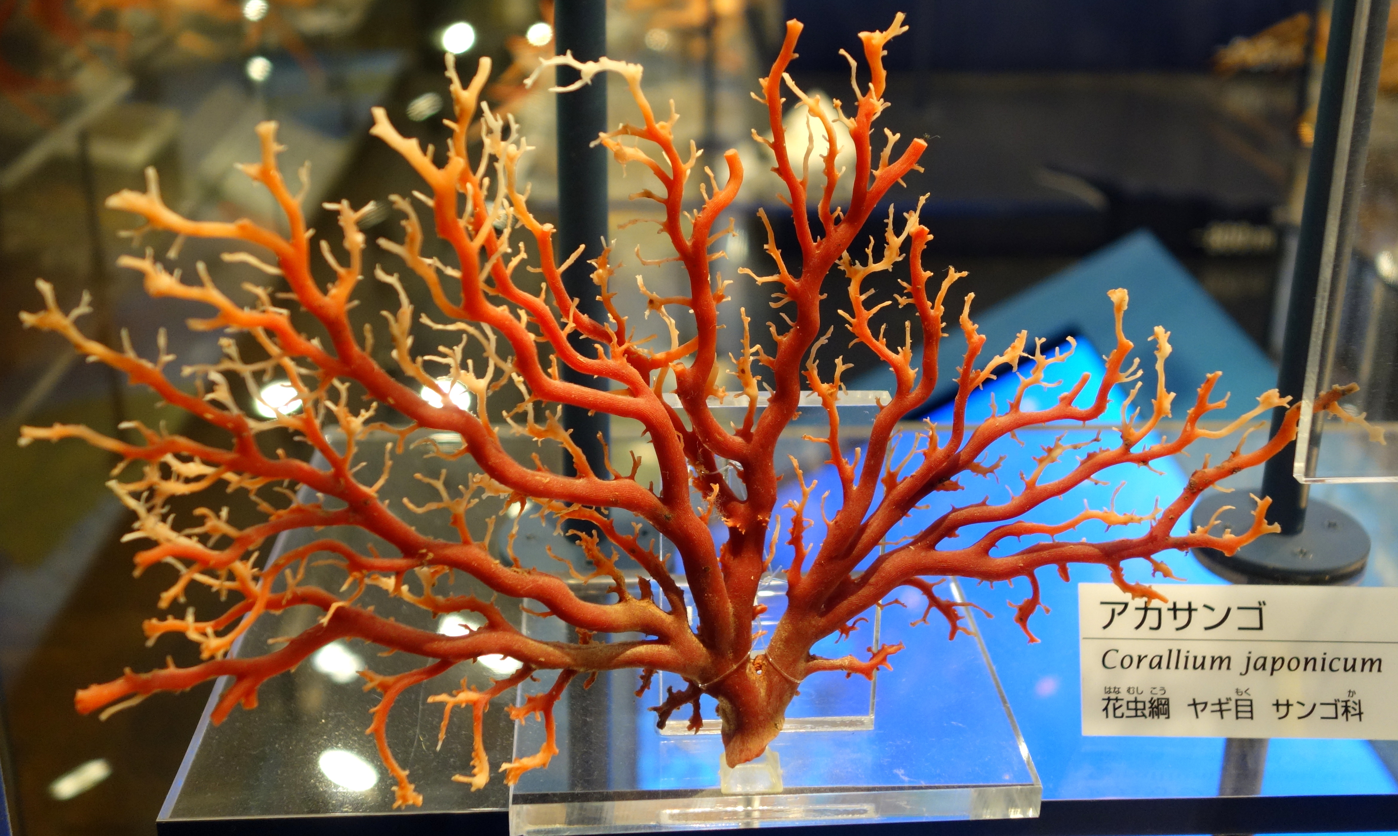 Exhibit in the National Museum of Nature and Science, Tokyo, Japan. Paracorallium japonicum = Corallium japonicum